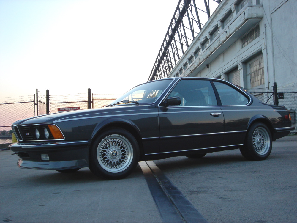 A European 1985 BMW M635CSi (M6) photographed in the Boston seaport